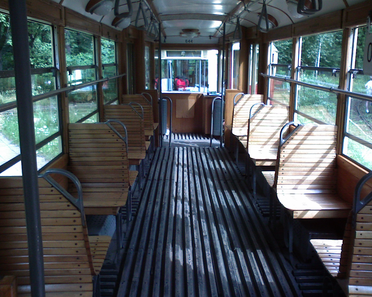 Inside view of the Konstal 5ND tram (#644) on the "0" line in Łódź, Poland.